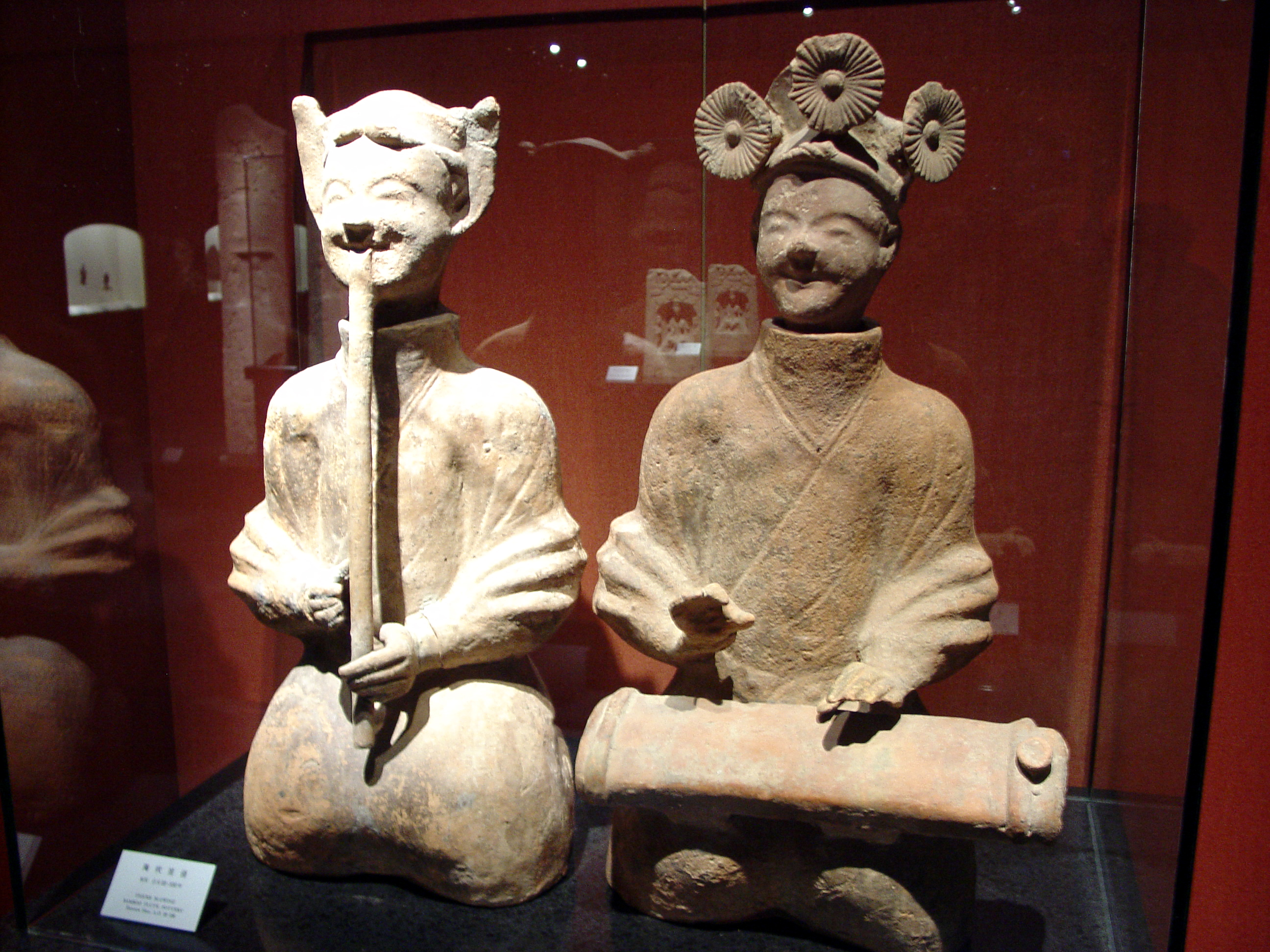 Musicians. Eastern Han Dynasty (25-220 AD). Shanghai Museum These two lively musicians play a bamboo flute and a plucked instrument. The figure on the right wears an elaborate headdress with three large flowers.